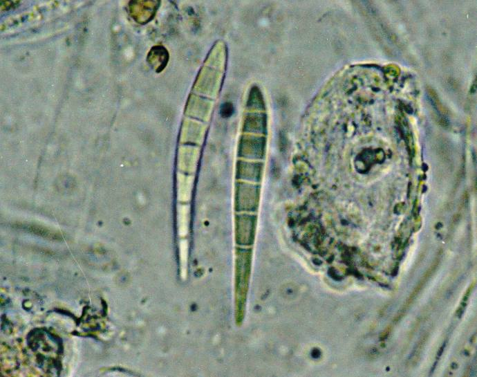 Scoliciosporum chlorococcum (Stenh.) Vězda, 1978 Photograph of two spores from Scoliciosporum chlorococcum taken through a compound microscope, x1000. Spores are 7-septate and measure approximately 36 x 5 microns. S. chlorococcum was growing on the trunk of a small Red Maple (Acer rubrum L.) along a fire road at Liberty Reservoir off Wards Chapel Road, Baltimore County, Maryland, USA; collected and identified by E.C. Uebel (No. U-242, 10 Jul 2001).